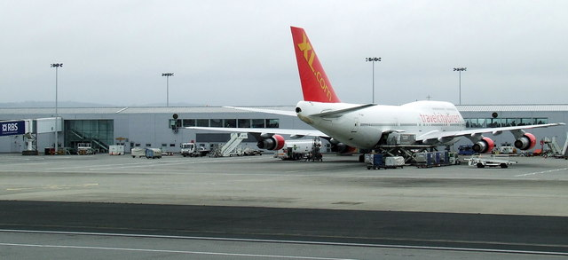 Boeing 747 at Glasgow Airport